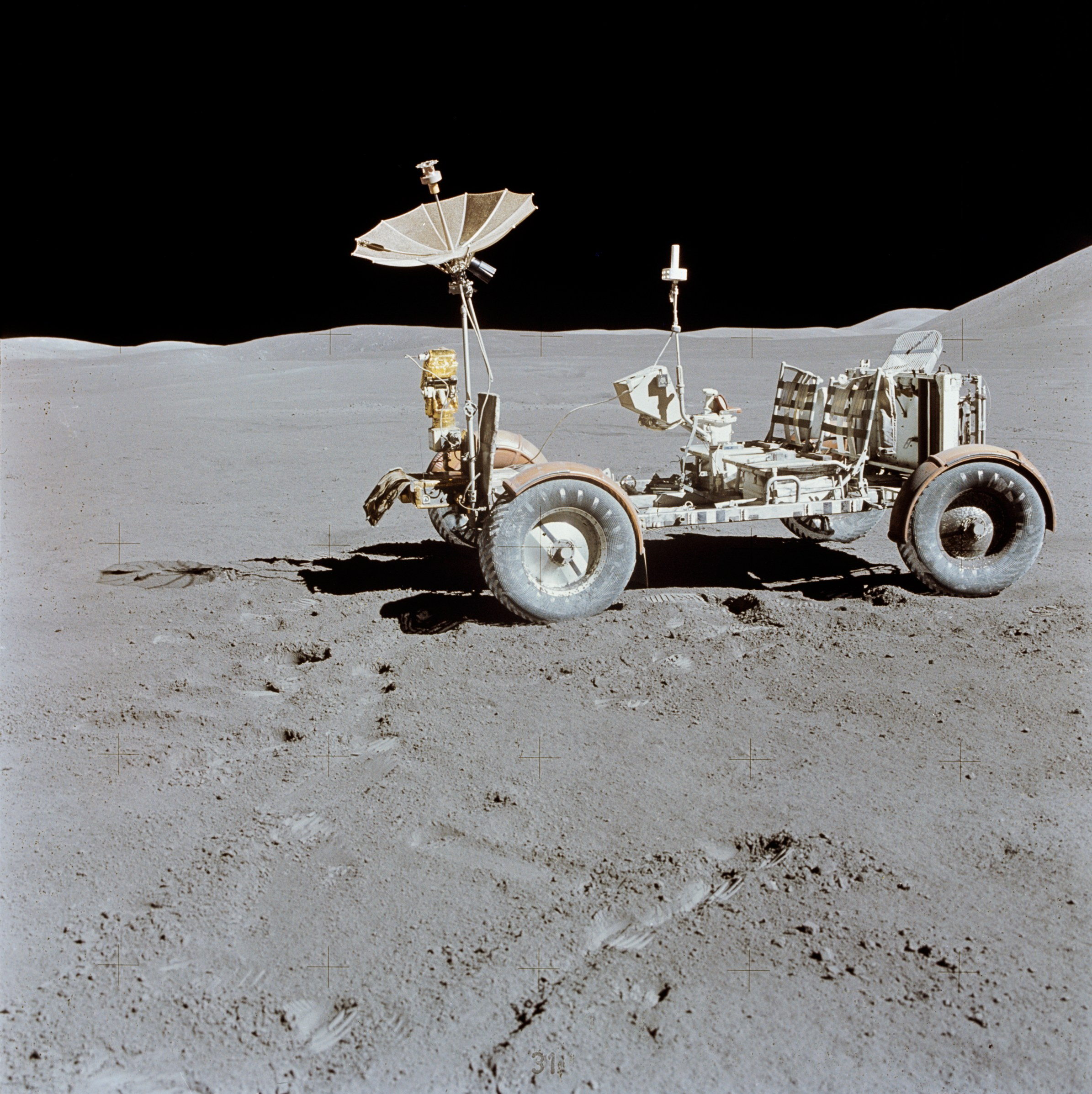 One of a series of images taken as a pan of the Apollo 15 landing site, taken by Commander Dave Scott. Featured is the Lunar Roving Vehicle at it's final resting place after EVA-3. At the back is a rake used during the mission. Also note the red Bible atop the hand controller in the middle of the vehicle, placed there by Scott.